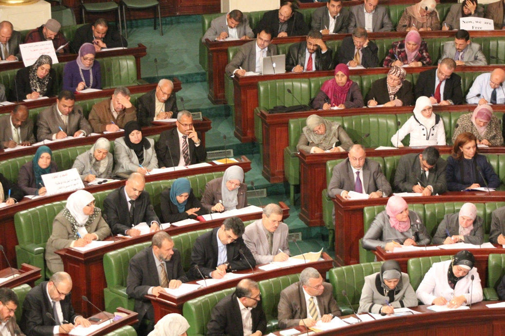 Ennahda group at the Tunisian Constituent Assembly